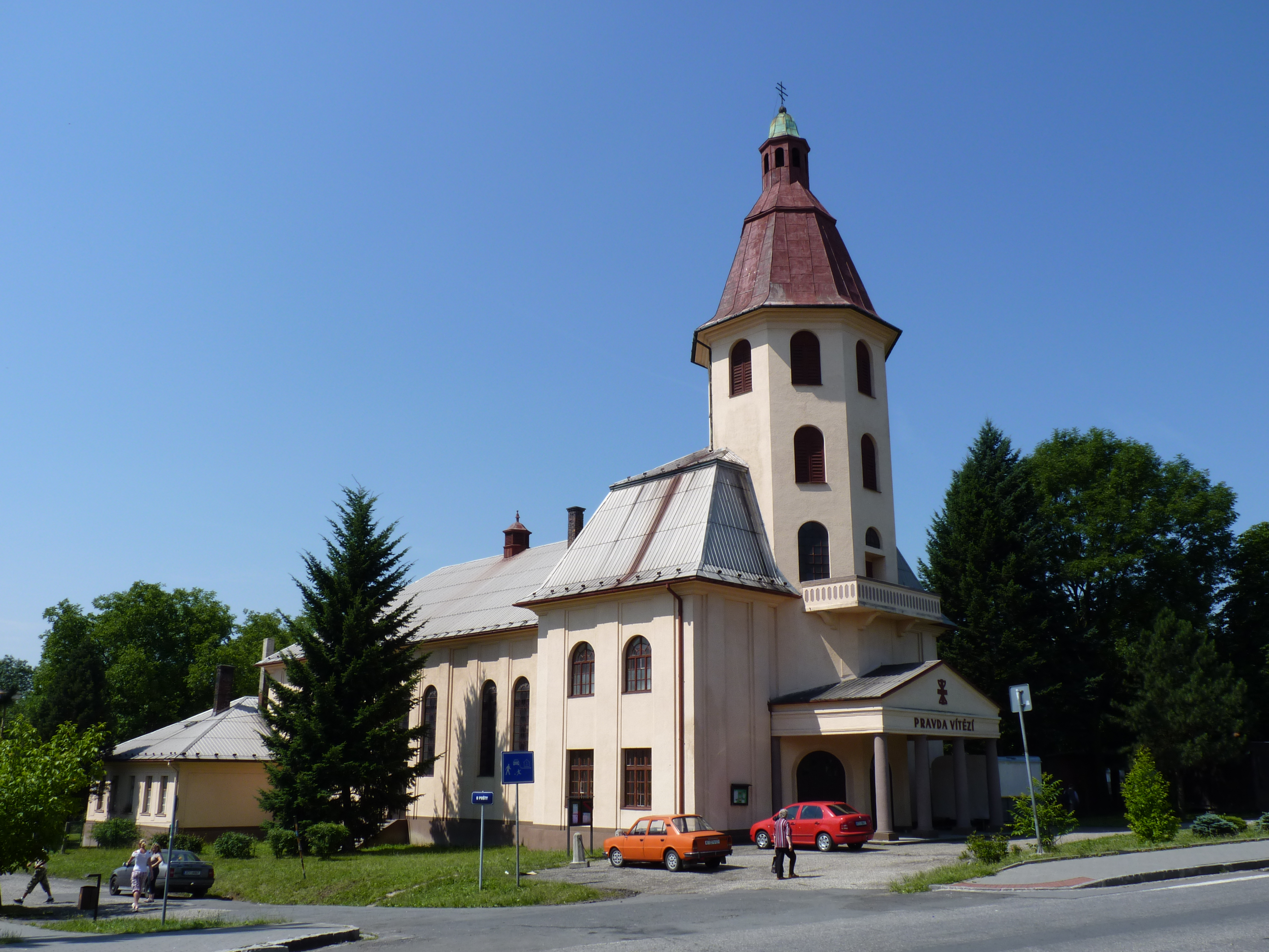 The Czechoslovak Hussite Church, Rychvald. Karviná District, Moravian-Silesian Region, Czech Republic